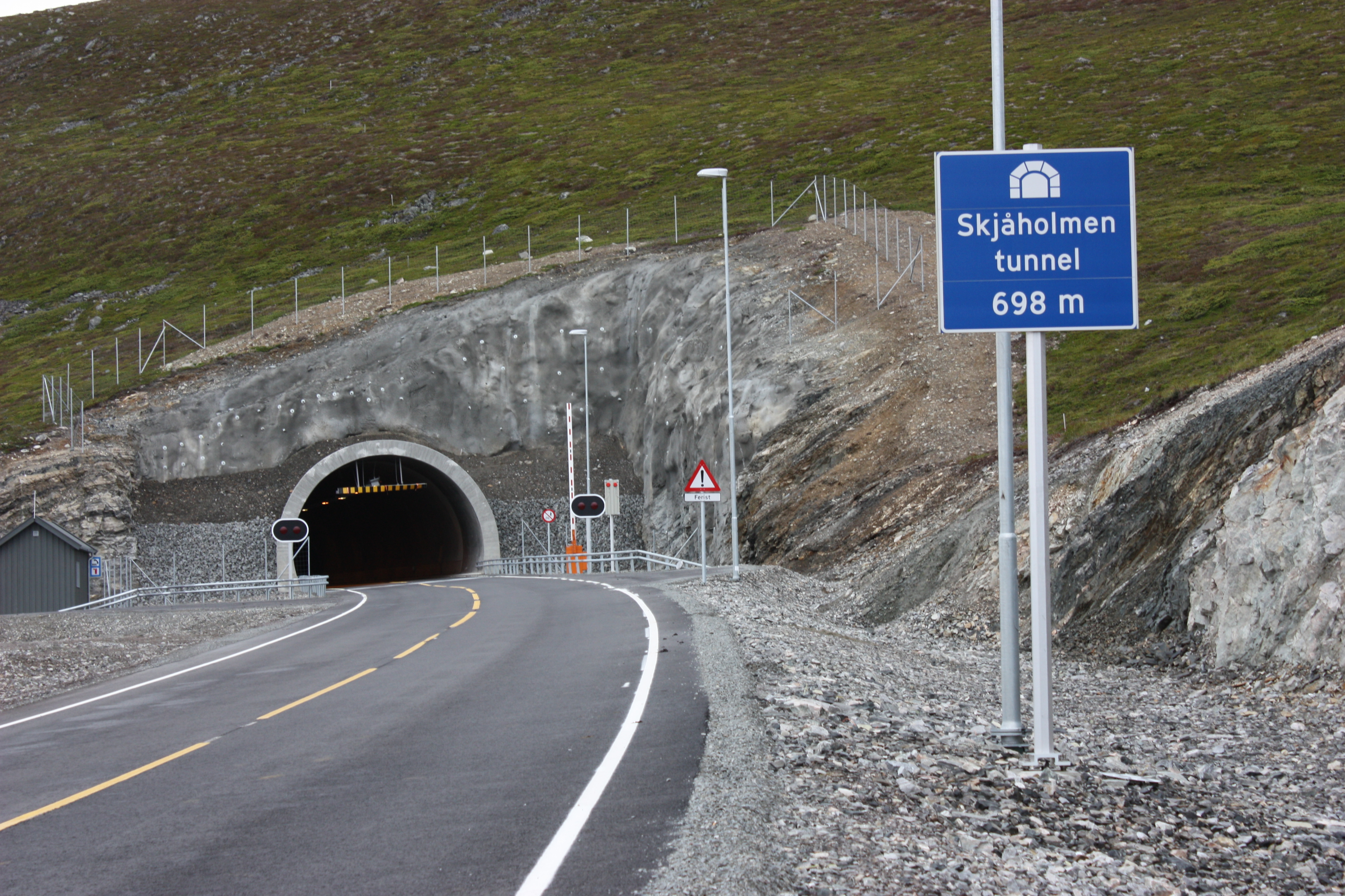 The southern entry point of the Skjåholmen Tunnel as of August 11, 2012.